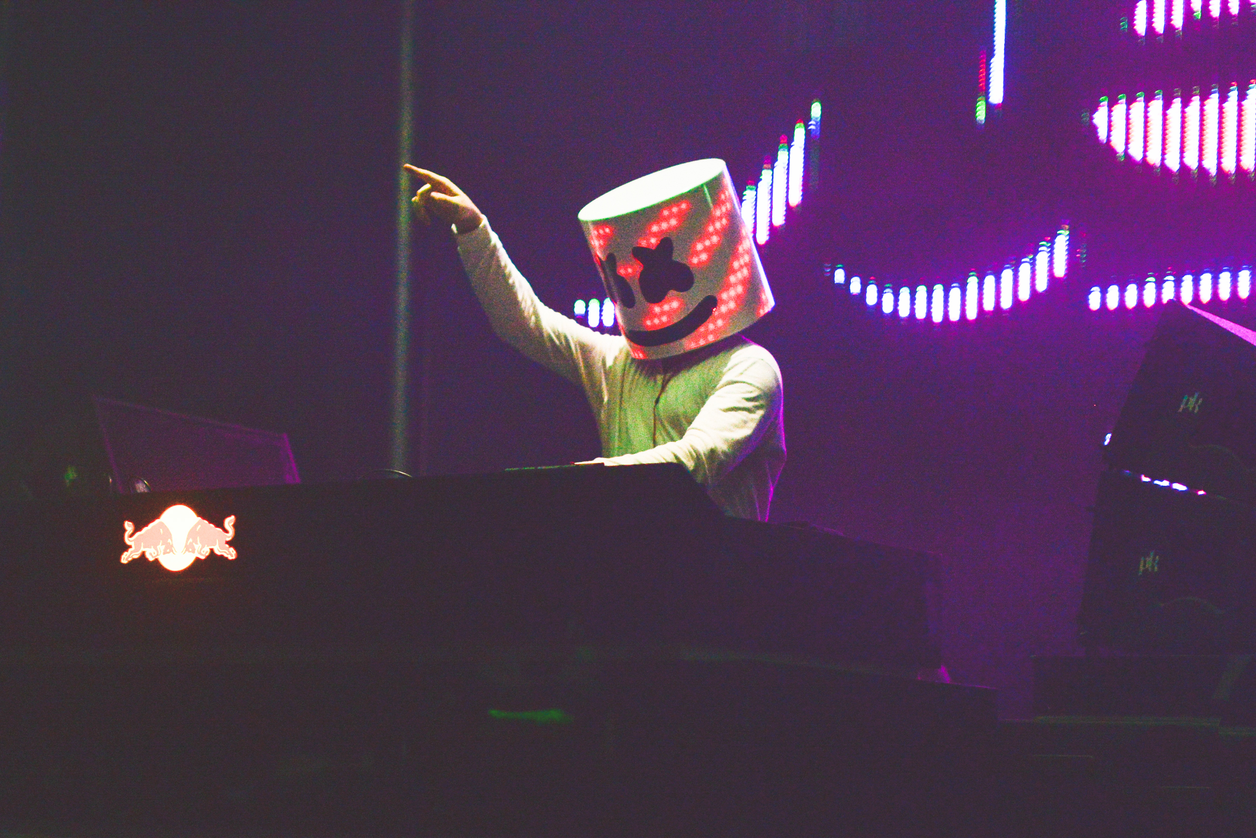 Marshmello performing at the Mad Decent Block Party at the Fort York Garrison Commons in August 19th, 2016